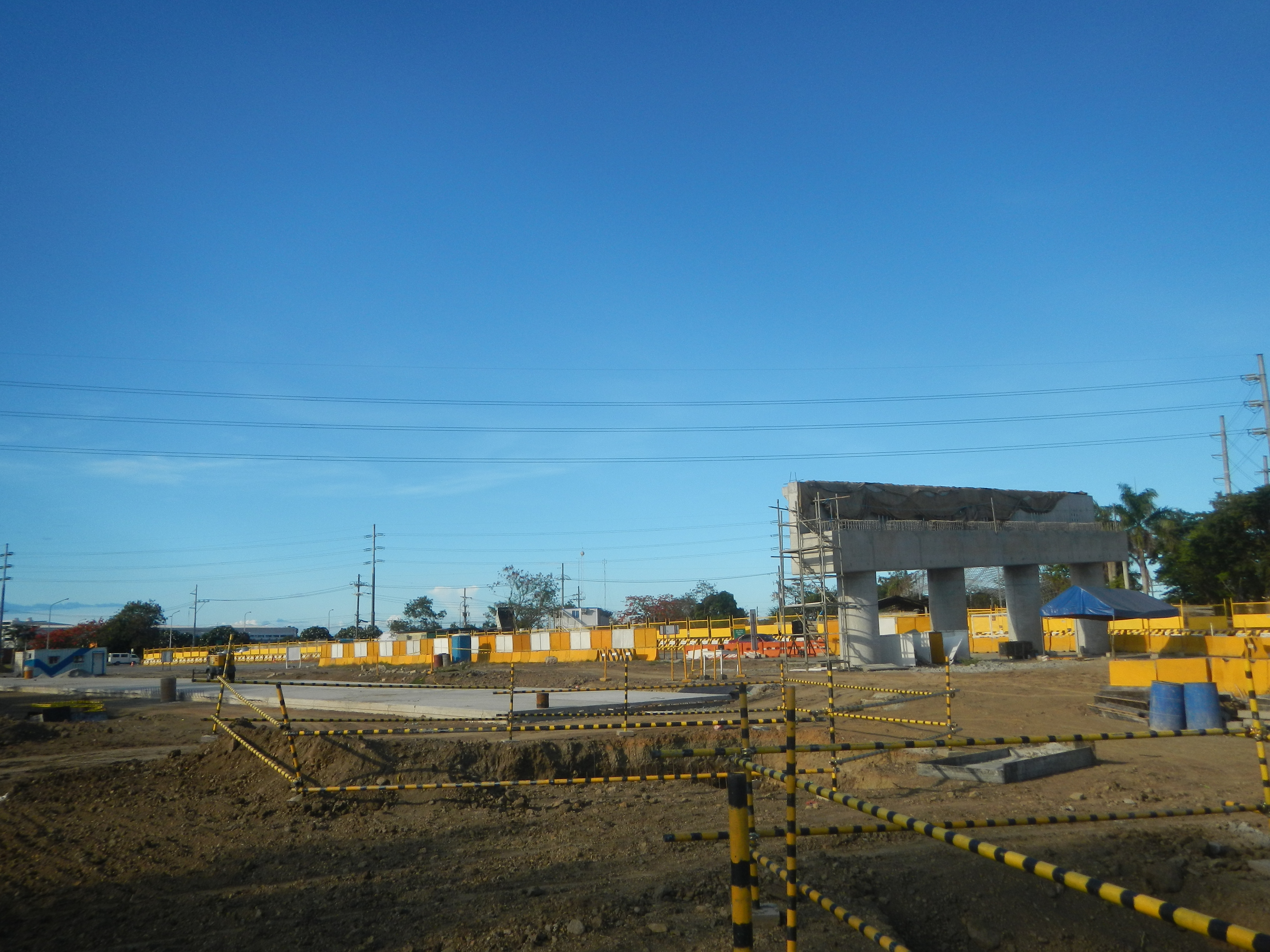 Welcome monument of (Inchican) Silang, Cavite (Don Jose Bridge), Santa Rosa, Laguna South Forbes Golf City (Inchican, Silang, Cavite) Microtel South Forbes (Inchican, Silang, Cavite) Scandia Suites (Inchican, Silang, Cavite) Destination Hotel South Forbes - Stanford Suites (Inchican, Silang, Cavite) Roman Catholic Diocese of San Pablo Saint John Bosco Parish Church and Center for Young Workers (Santarosa Village 1, Laguna Technopark, Don Jose, Santa Rosa, Laguna) Narra Street Construction of Cavite-Laguna Expressway - Ayala-Nuvali Boulevard Viaduct V1 (Don Jose, Santa Rosa, Laguna) 1st District List of barangays in Laguna (province) Barangays Don Jose 14°15'13"N 121°4'39"E Santo Domingo 14°13'57"N 121°3'59"E Pulong Santa Cruz 14°16'34"N 121°5'6"E Balibago 14°17'26"N 121°6'16"E Santa Rosa, Laguna along Tagaytay–Santa Rosa Road and interconnecting with Cavite–Laguna Expressway in Laguna Technopark Inc. Santa Rosa and Biñan City, Laguna, Laguna Boulevard bounded by Barangay Inchican 14°14'38"N 121°2'17"E Silang, Cavite (Note: Judge Florentino Floro, the owner, to repeat, Donor Florentino Floro of all these photos hereby donate gratuitously, freely and unconditionally Judge Floro all these photos to and for Wikimedia Commons, exclusively, for public use of the public domain, and again without any condition whatsoever).